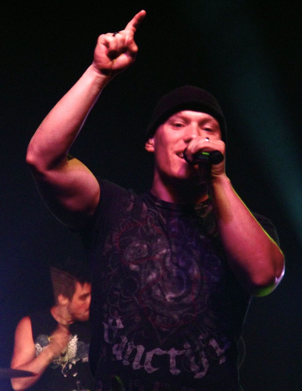 I am the originator of this photo. I hold the copyright. I release it to the public domain. This photo depicts Jon Micah Sumrall, the lead vocalist of the Christian rock band Kutless.